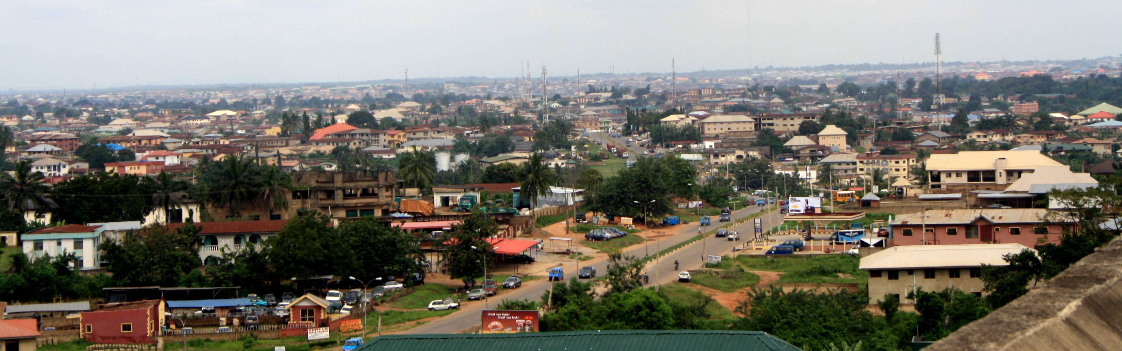 Osogbo city view